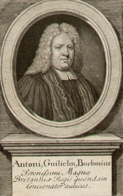 Portrait of Anton Wilhelm Böhme (1673–1722), German Lutheran royal chaplain in London.